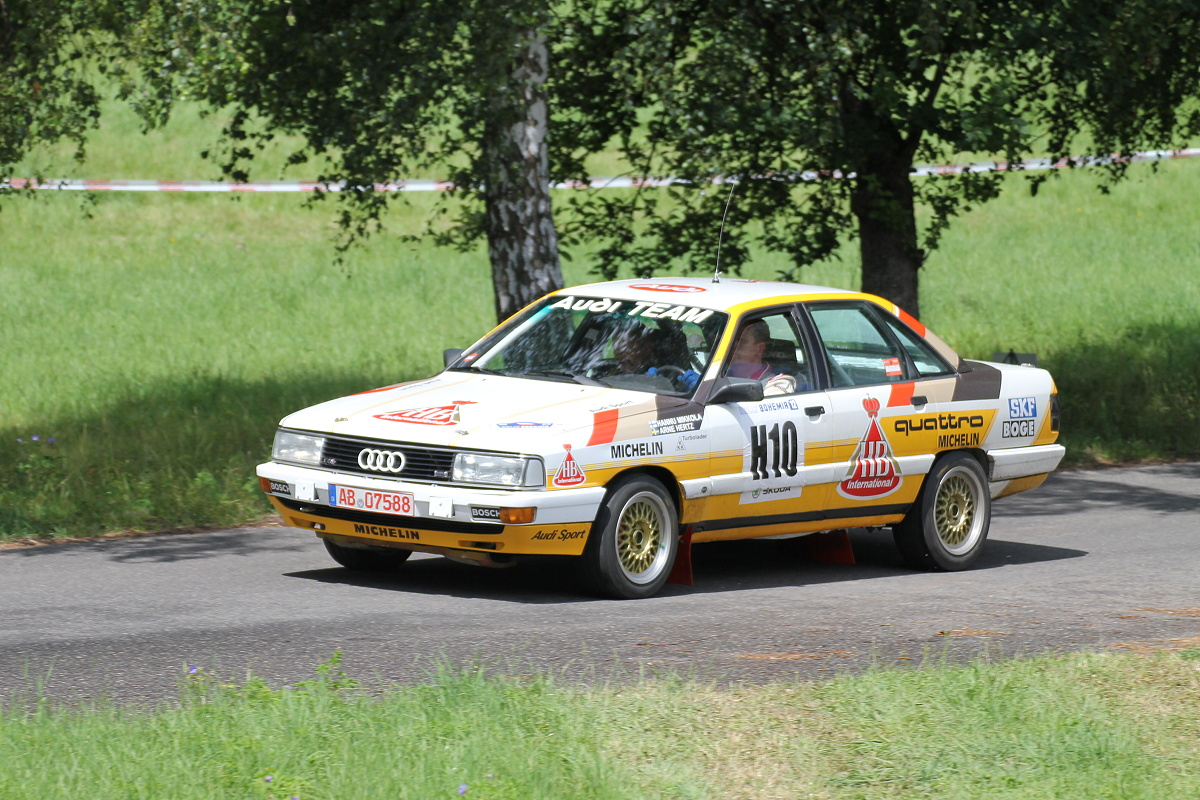 H10 Gast Volker - Uwe Rehberg (DEU) - Audi 200 Quattro / group A / 1984, replica 1992